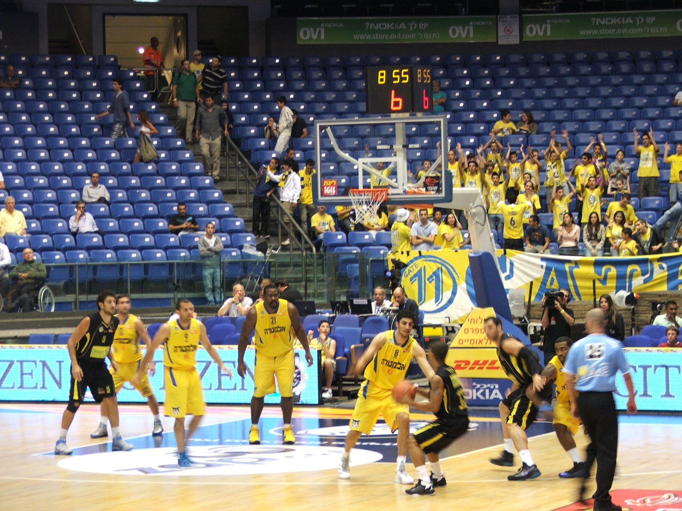 Maccabi Tel Aviv VS. Barak Netanya 31/10/11